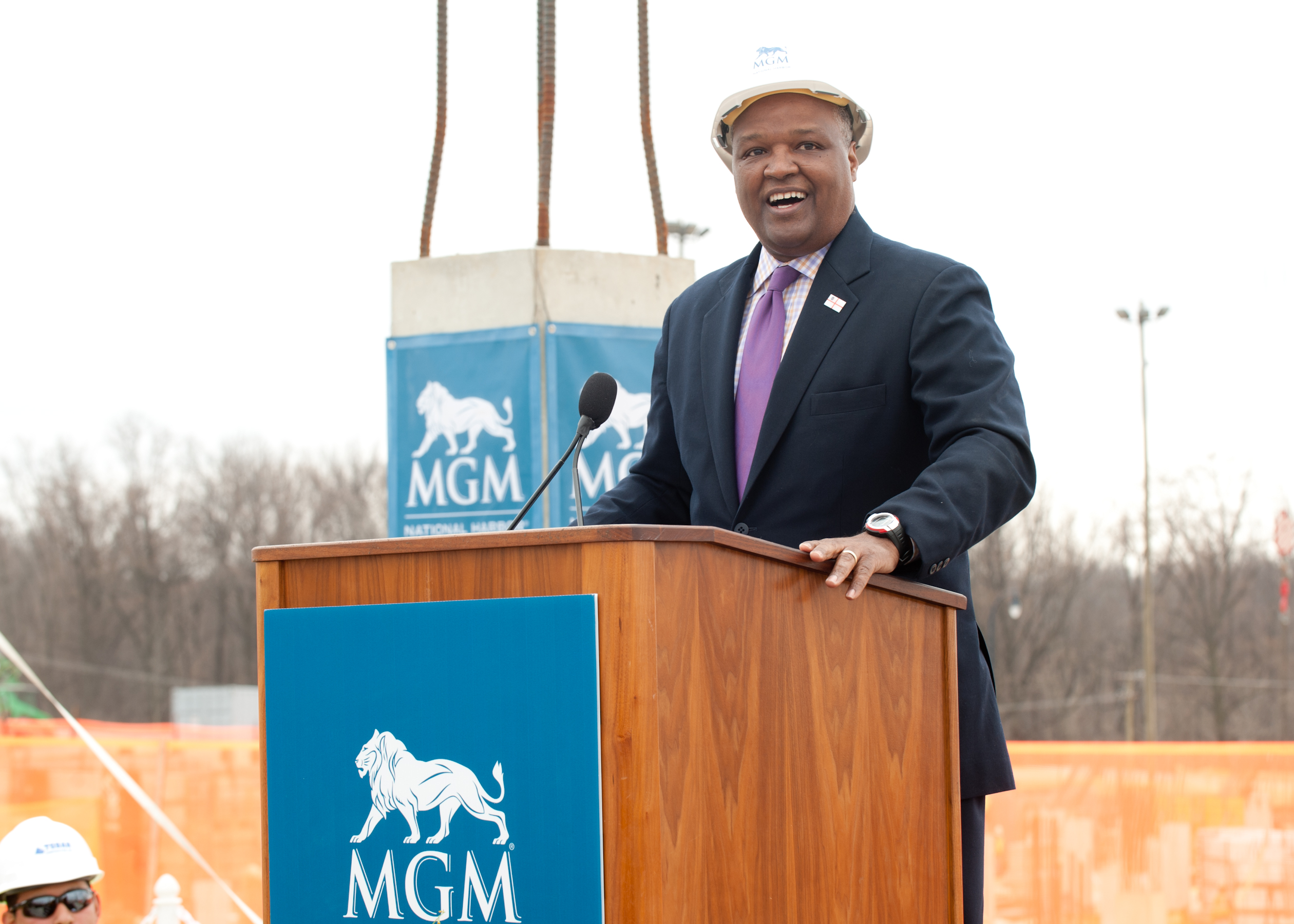 1000 Employee by Richard Lippenholz at National Harbor Celebration of 1000 construction workers being hired for construction of MGM National Harbor.